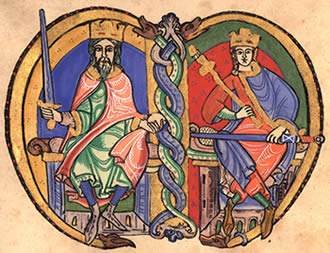 David I of Scotland and Malcolm IV of Scotland, detail of an illuminated initial on the Kelso Abbey charter of 1159